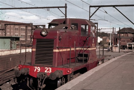 Diesel shunting locomotive 7923 at Platform 15 Sydney